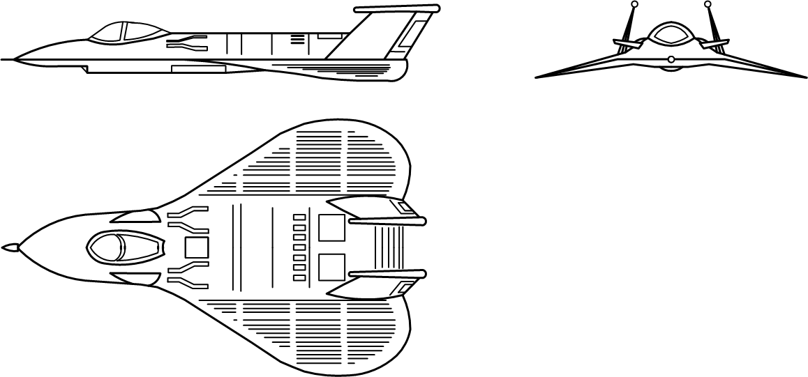 F-19 in 3 projections